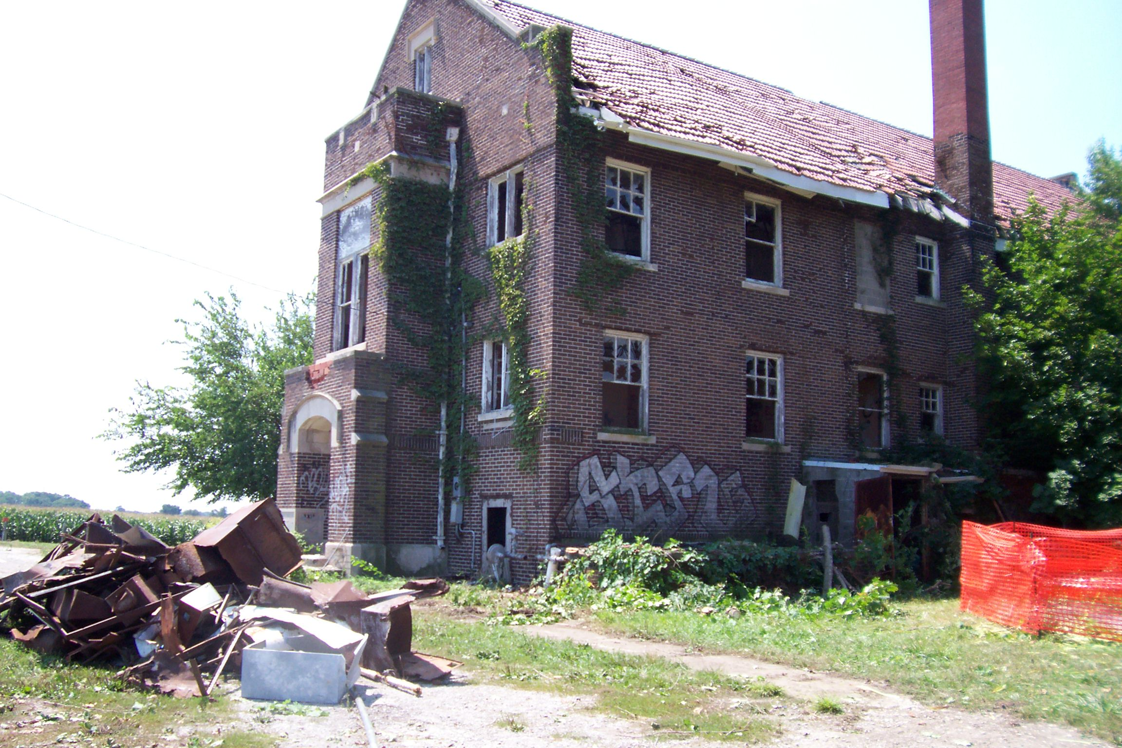 Ashmore Estates exterior, after its purchase by Scott and Tanya Kelley.